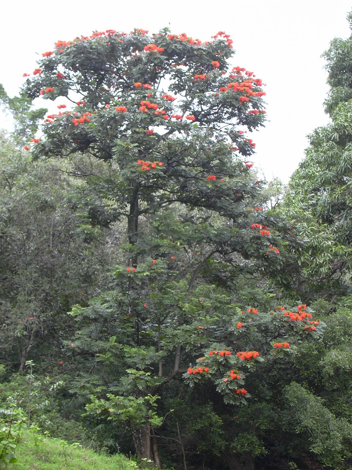 Flowering habit of an African Tulip Tree at Kipahulu, southern Maui, Hawaii